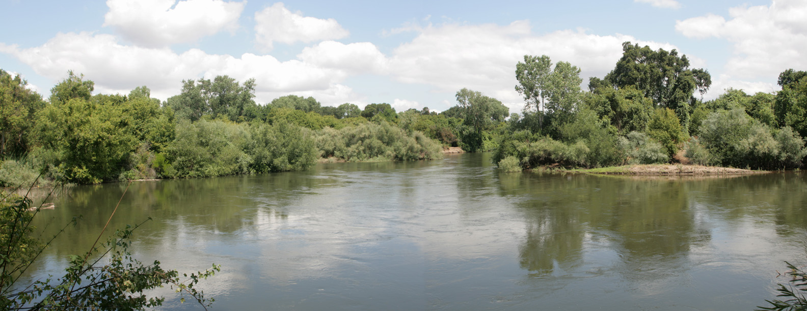 The Stanislaus River and riparian forest in Caswell Memorial State Park — in San Joaquin County, California. This is a composite of two images, right and left, each originally taken with a 20-30mm lens at 20mm onto an APS size sensor.